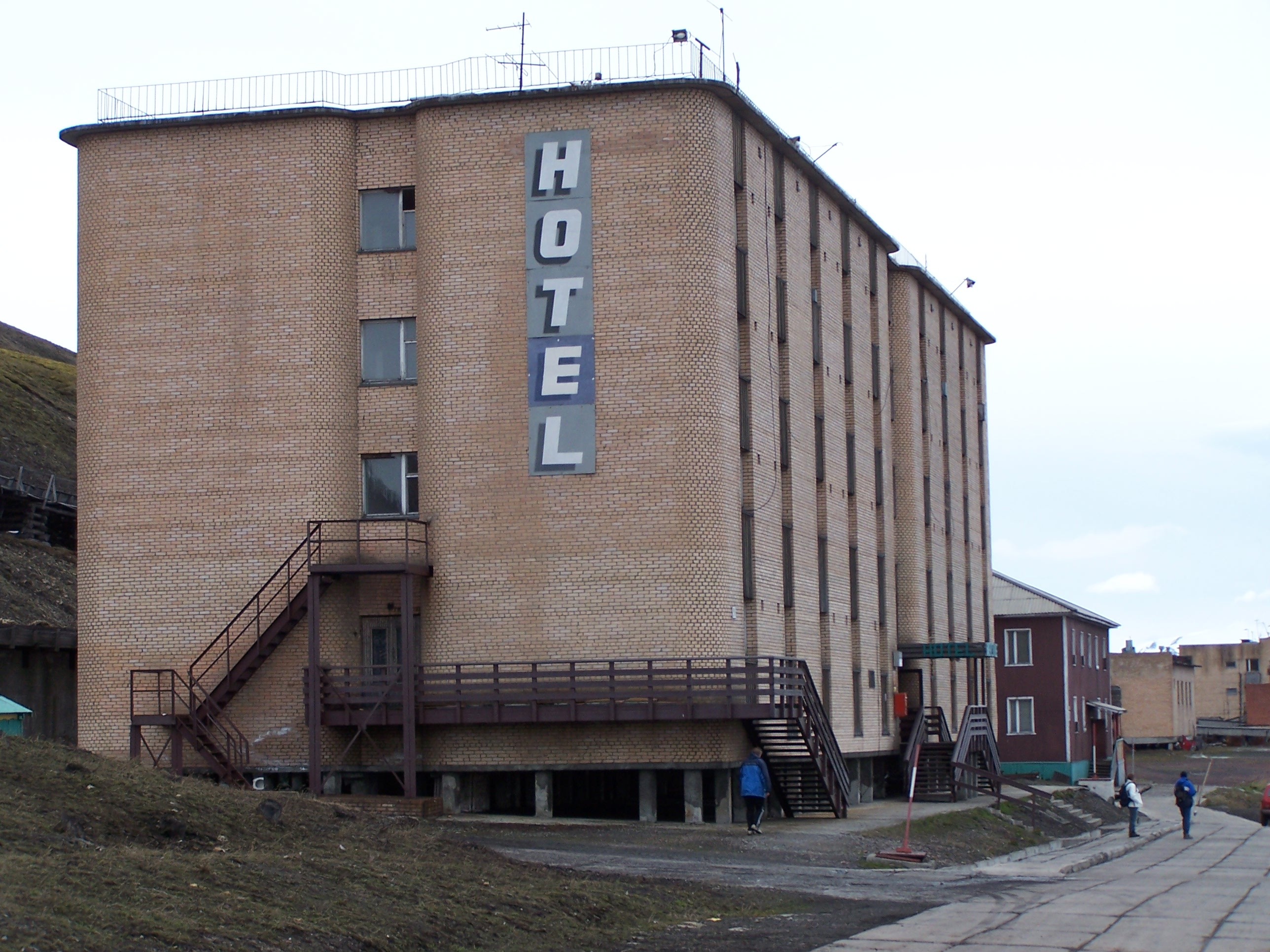 Barentsburg, Svalbard, Norway.